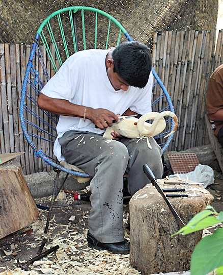 An Alebrije being carved from Copal wood in Arrazola, Oaxaca, Mexico.